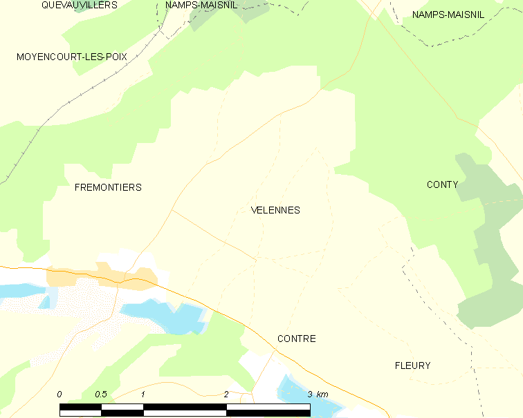 Map of French municipality Velennes